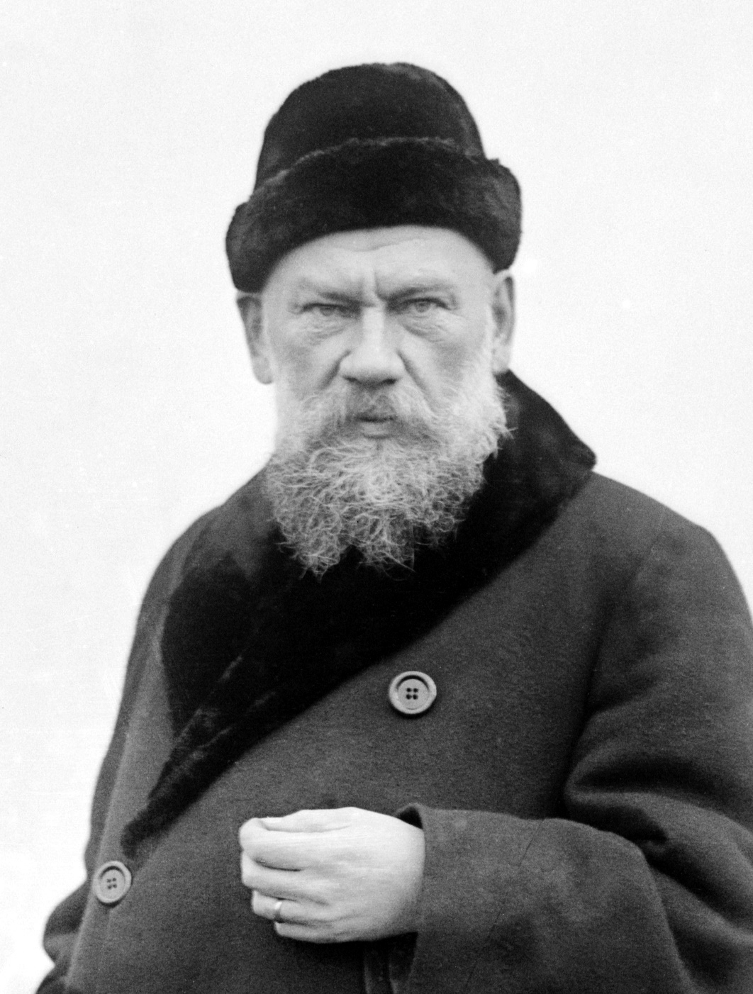 Leo Tolstoy's son Ilya Leovich Tolstoy, undated